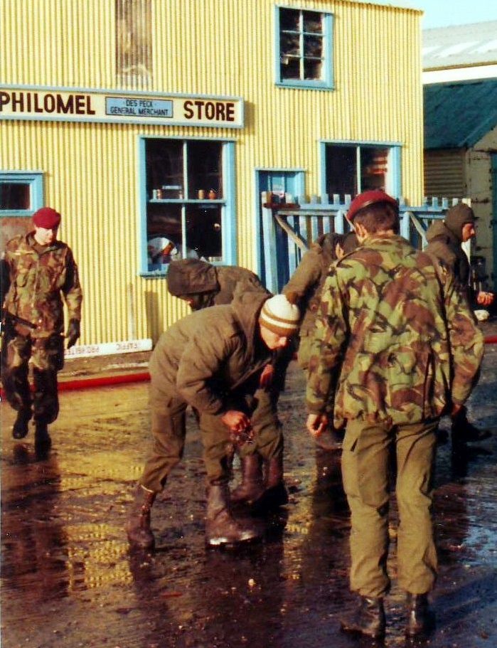 Argentine conscripts are made to clean the streets of Port Stanley after the surrender.